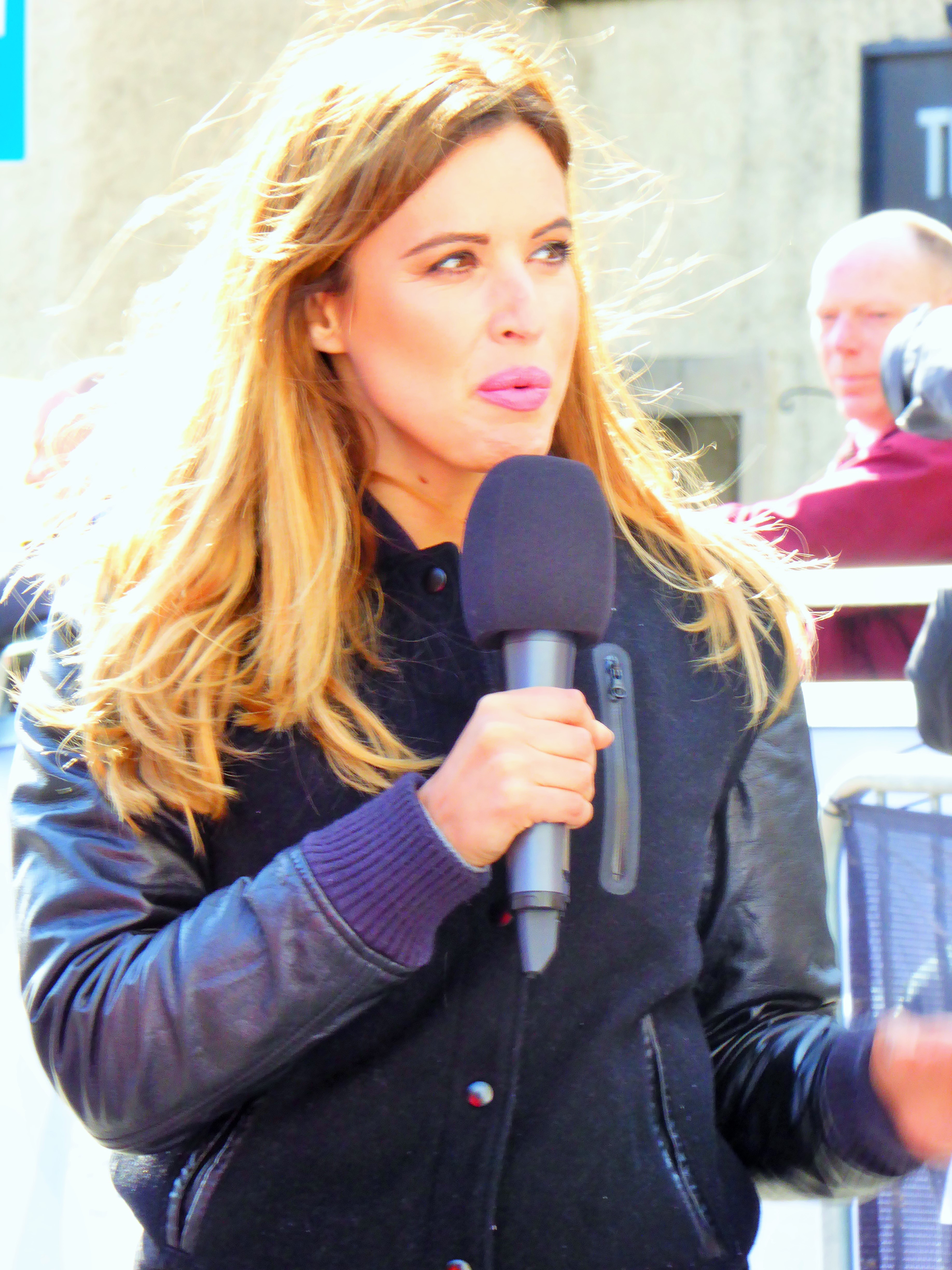 Charlie Webster, pictured at Round 3 of the Pearl Izumi Tour Series in Edinburgh on 19 May 2016.